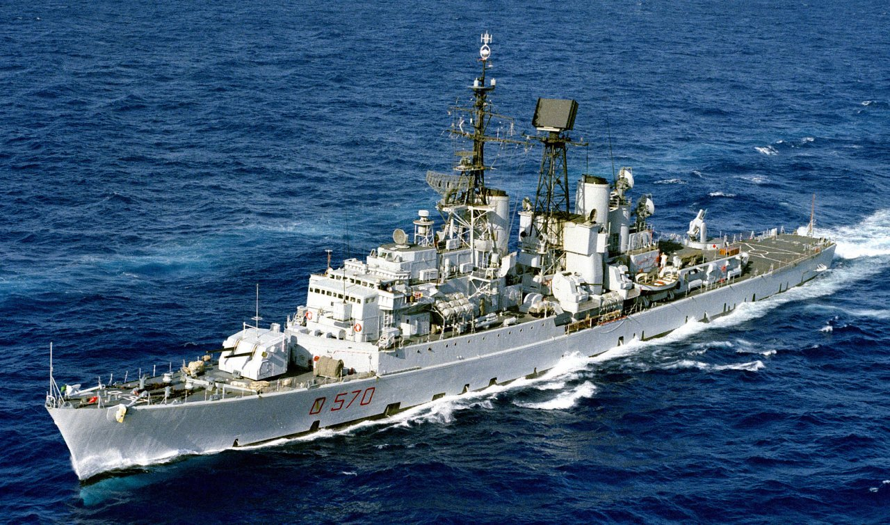 The Italian guided missile destroyer Impavido (D570) underway in the Mediterranean Sea during exercise "Distant Drum", 19 May 1983.